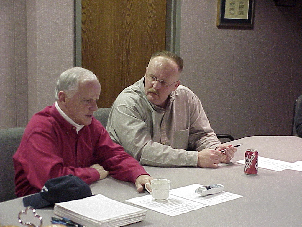 Oklahoma City, OK, February 7, 2002 -- FEMA Director Joe M. Allbaugh talks with Oklahoma Governor Frank Keating (left) during a briefing before state and federal officials began a tour on February 7 of areas damaged by the recent winter ice. Photo by Gene Romano/ FEMA News Photo